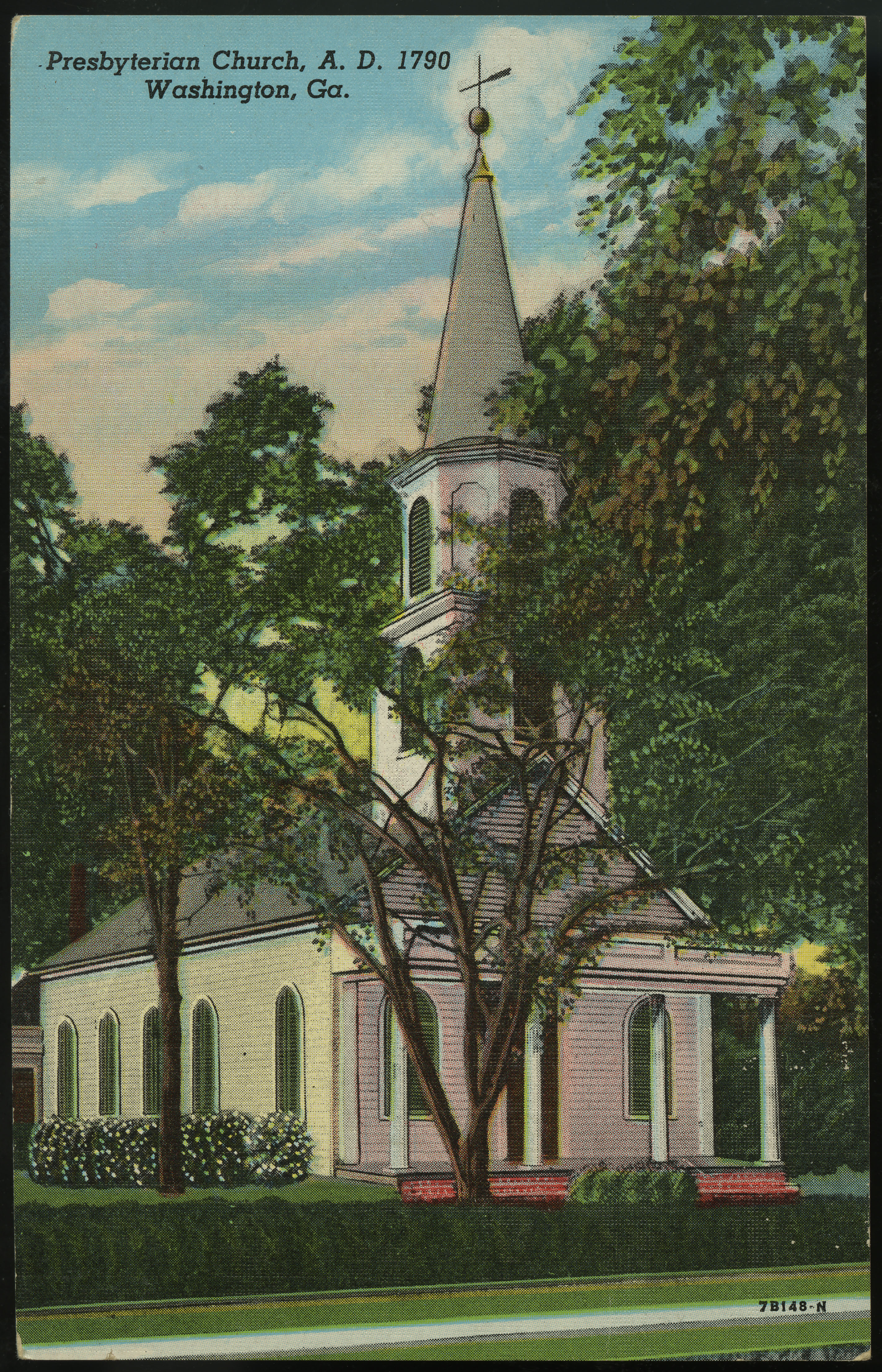 Presbyterian Church in Washington, Georgia from a pre-1923 postcard From RG 428, Postcard Collection, Presbyterian Historical Society, Philadelphia, Pennsylvania.